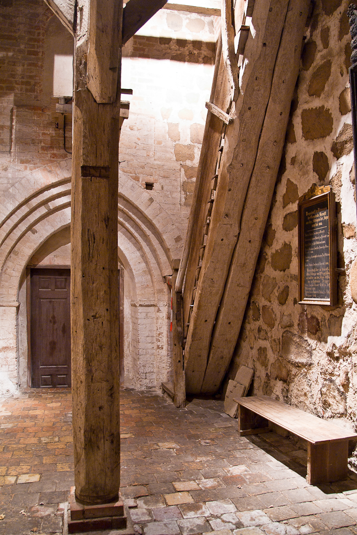 Church in Bernitt (staircase to the tower), disctrict Güstrow, Mecklenburg-Vorpommern, Germany